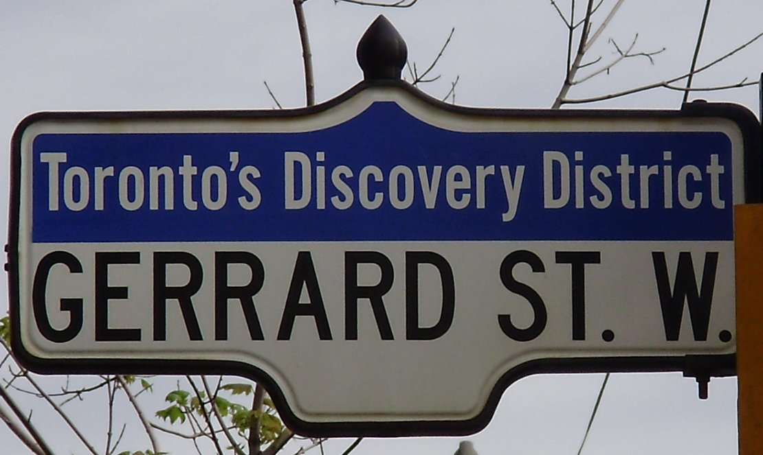 A Discovery District-branded street sign for Gerrard Street West at University Avenue in Toronto, Canada.